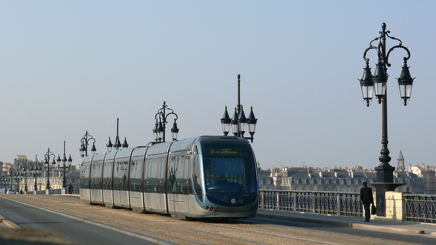 A Citadis 402 of Line B (not C!) on Pont de Pierre